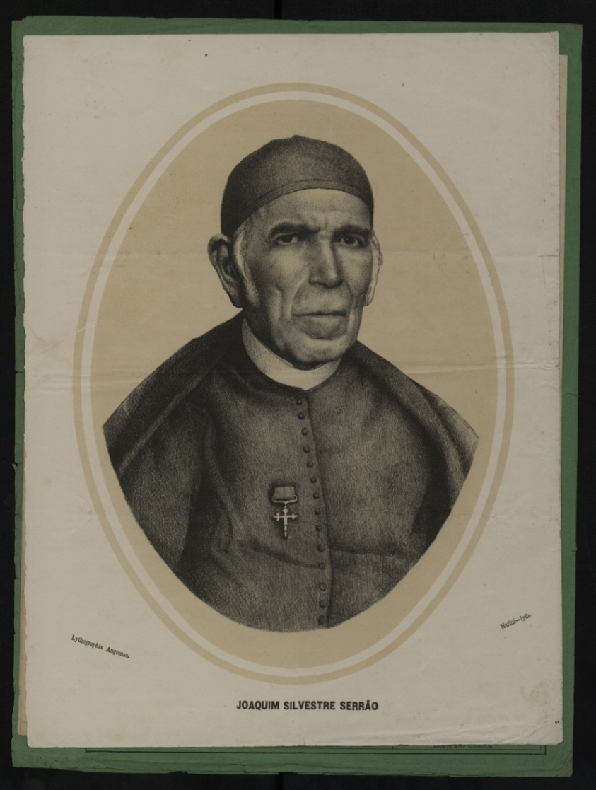 Engraving by Giorgio Marini of a portrait of Joaquim Silvestre Serrão, a musician.